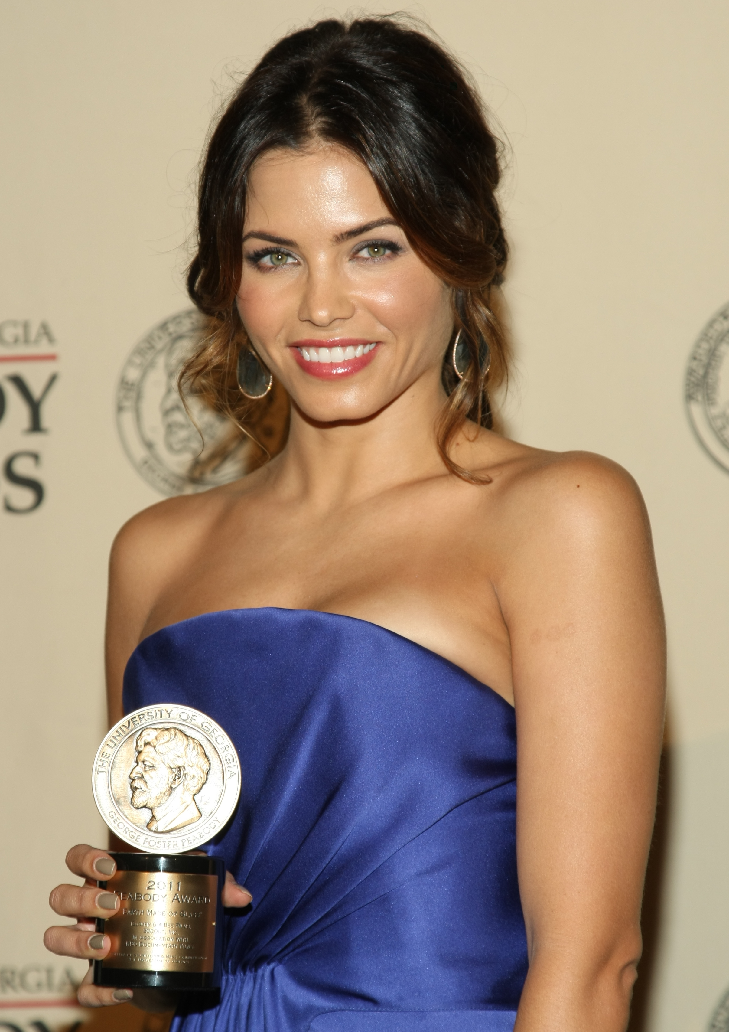 Jenna Dewan at the 71st Annual Peabody Awards Luncheon 2012.